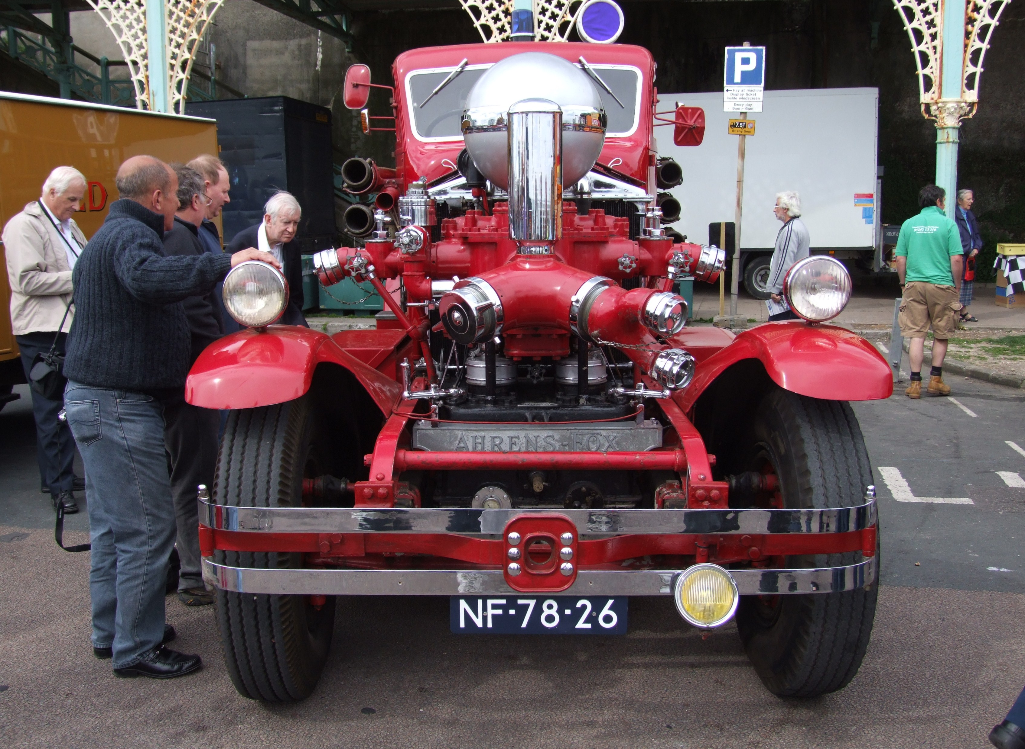 1927 Ahrens-Fox firetruck of Rotterdam. Driver view was obviously not a great priority in the design of this fantastic looking contraption.